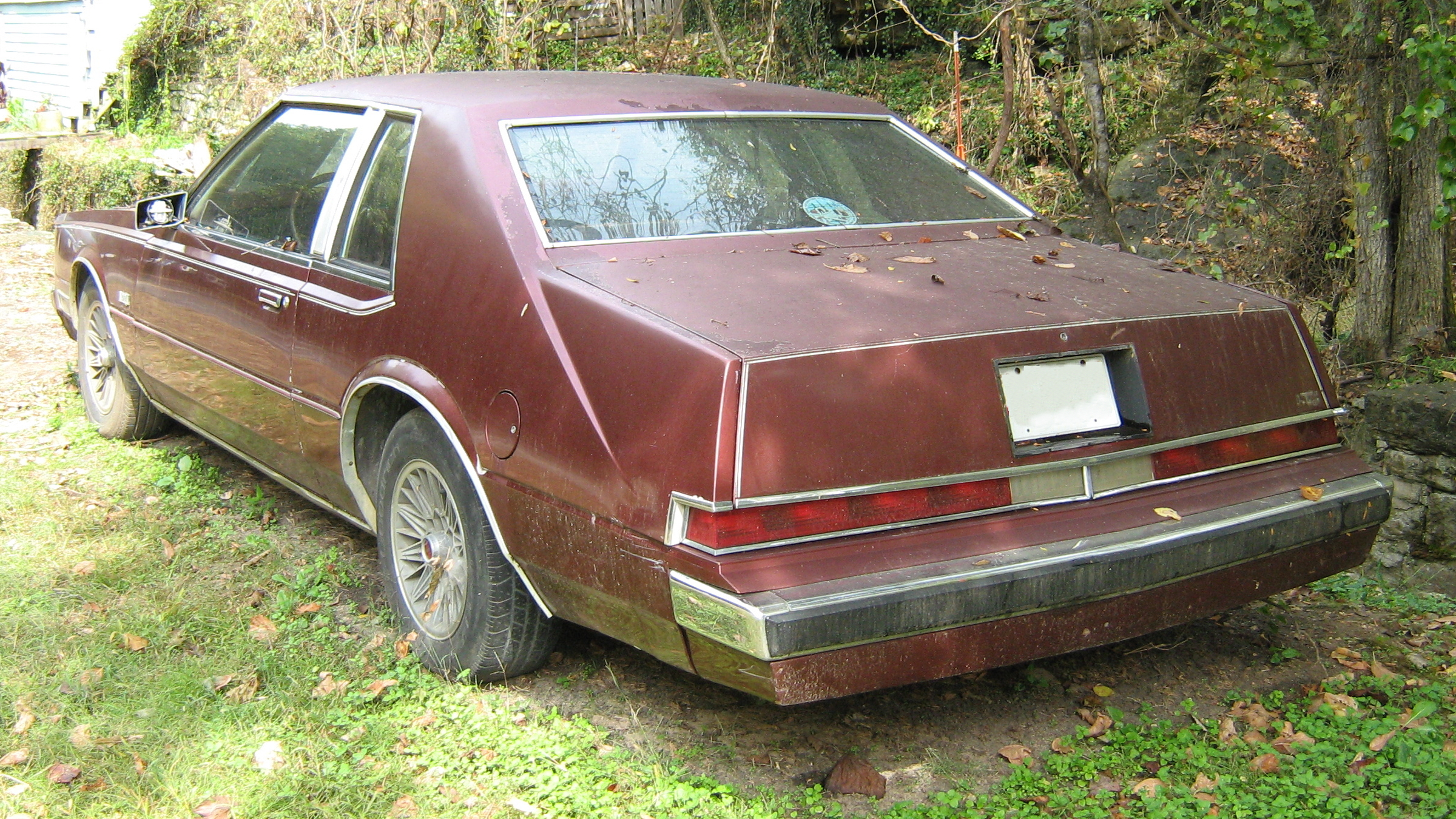 1981-1983 Imperial by Chrysler - burgundy, rear view